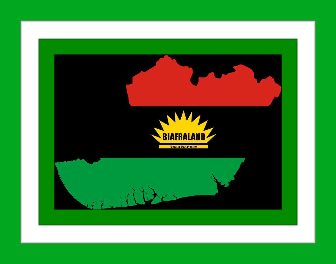 Biafraland - Official Flag